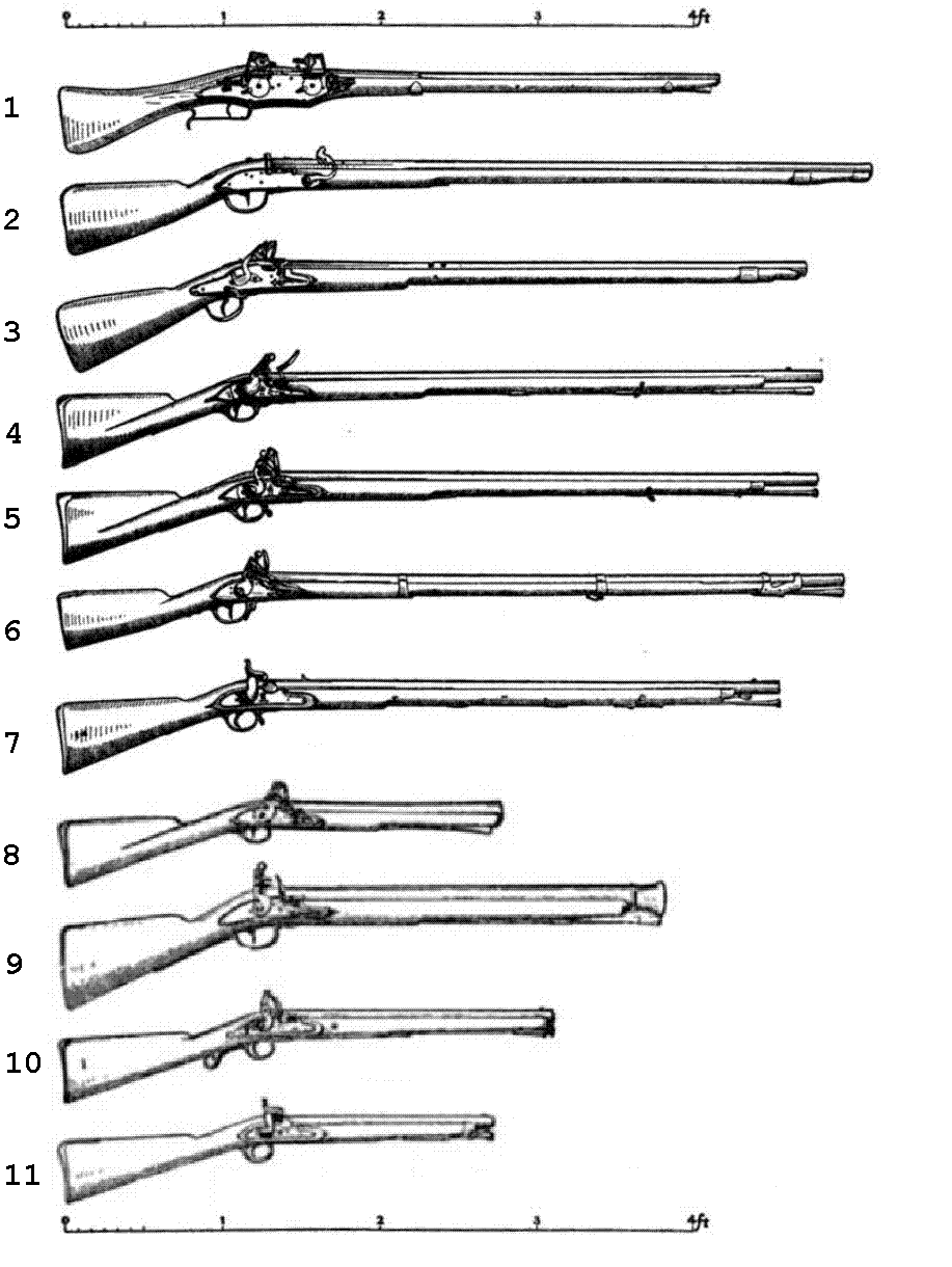 Taken from 1910 The Encyclopædia Britannica, page 719. Shows a number of various types of muzzle-loading guns: 16th century German carbine, with double wheel lock Snaphance William III Brown Bess George II Brown Bess George III Brown Bess French Napoleon 1839 British percussion musket Blunderbuss or musketoon, early 18th century Large blunderbuss, 1750 Flintlock cavalry carbine, 1875 Percussion carbine, 1830